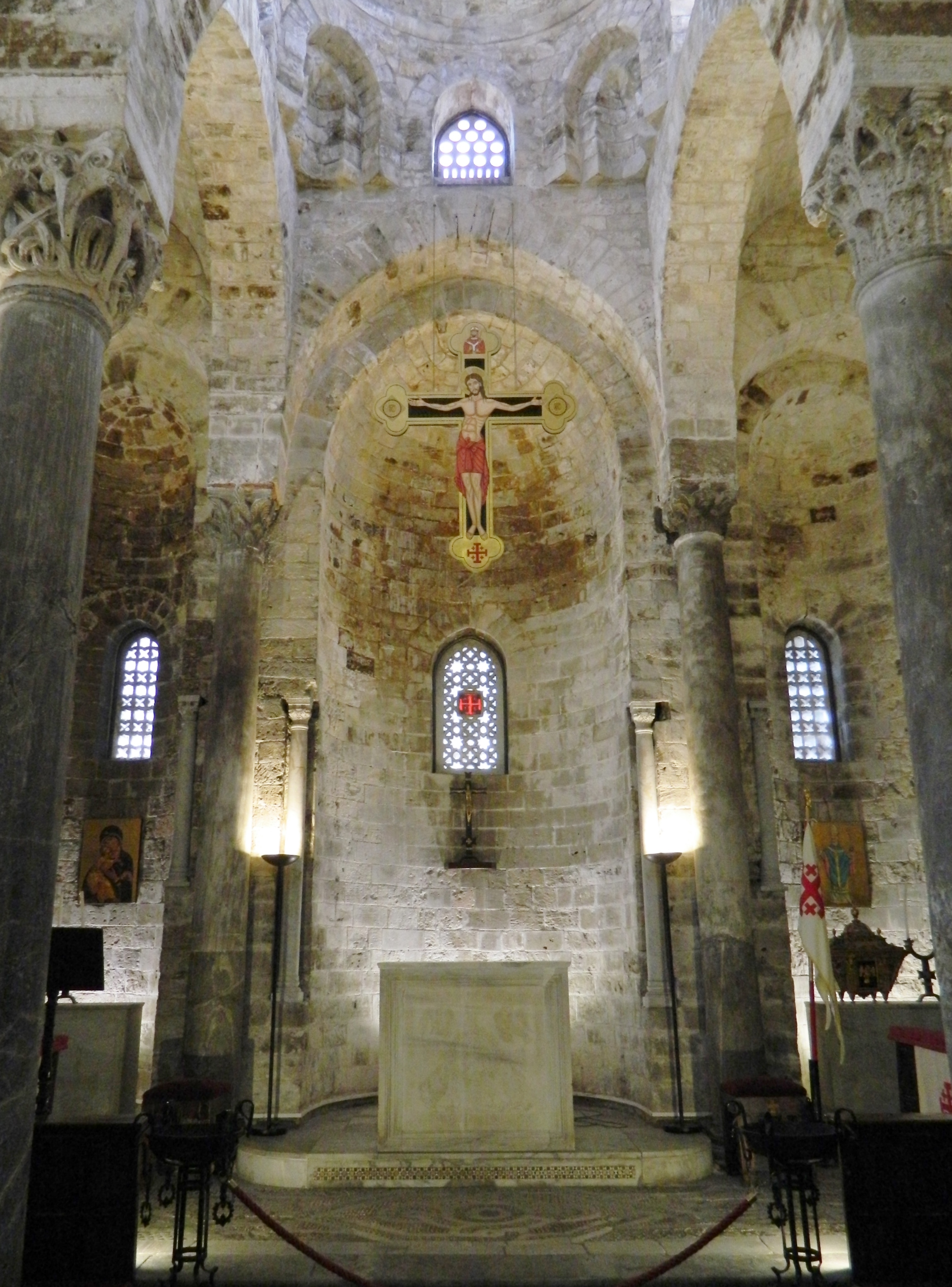 Three apses in the chiesa di San Cataldo (Palermo)